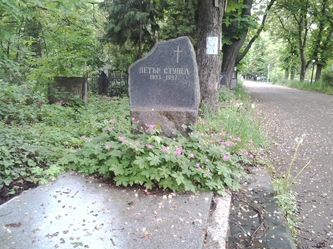 Peter Stoupel' grave at Central Sofia Cemetery